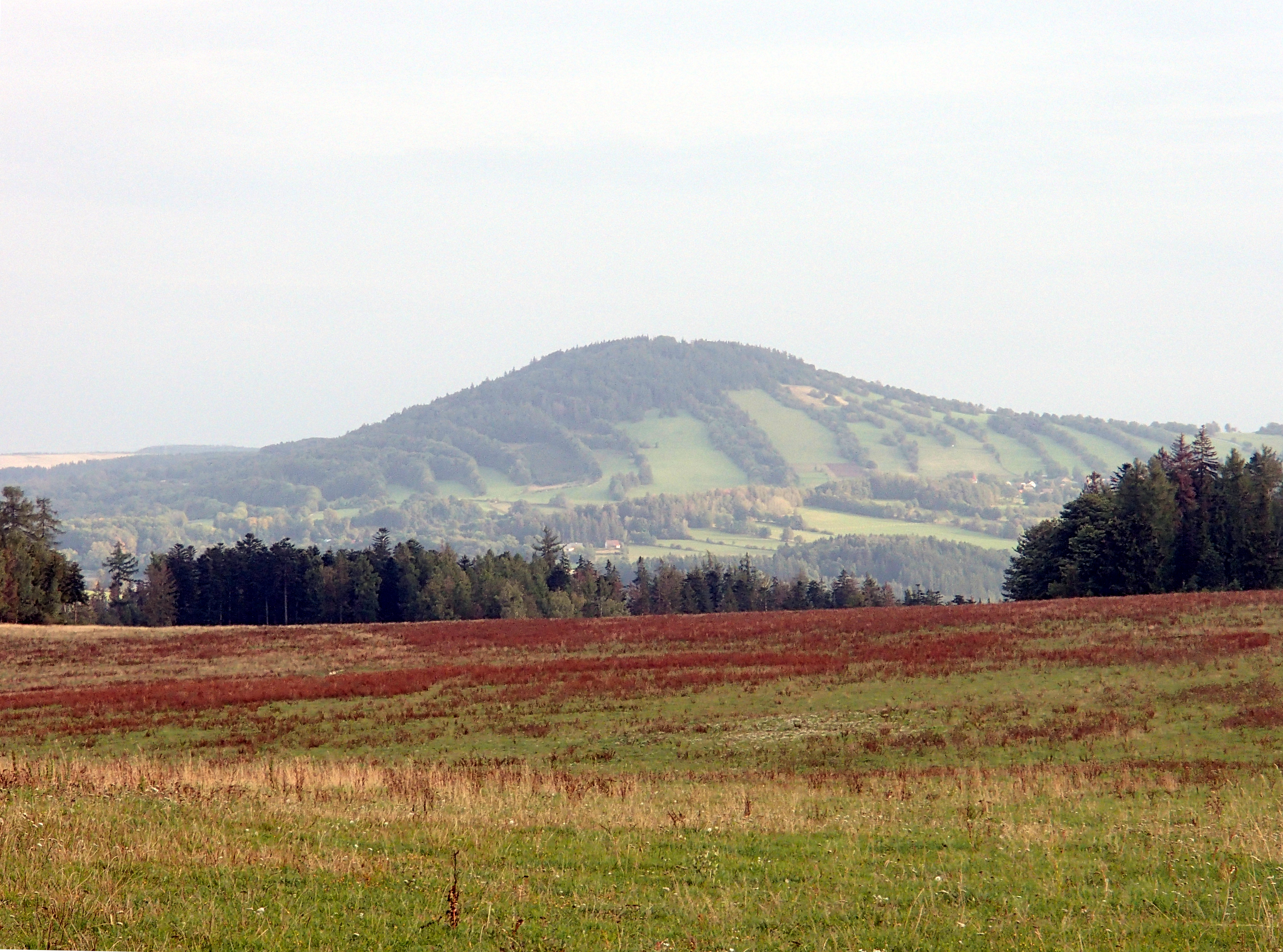 Velký Roudný, extinct volcano